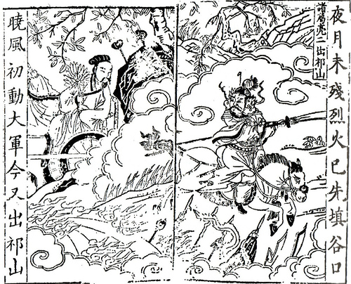 Fei Yao meets Kongming